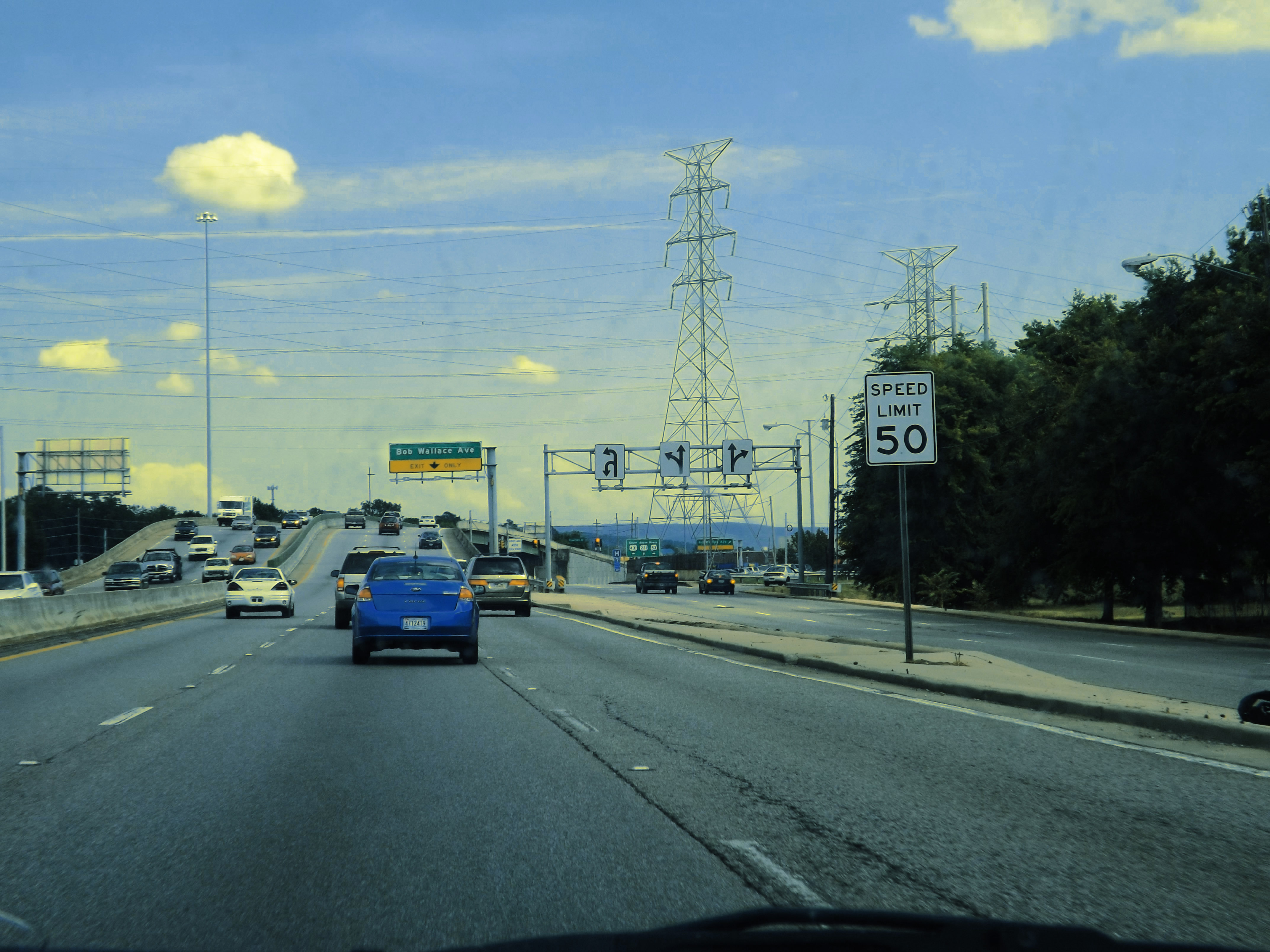 Memorial Parkway headed over Governors Drive in Huntsville, Alabama. Photo by Larry Wilbourn